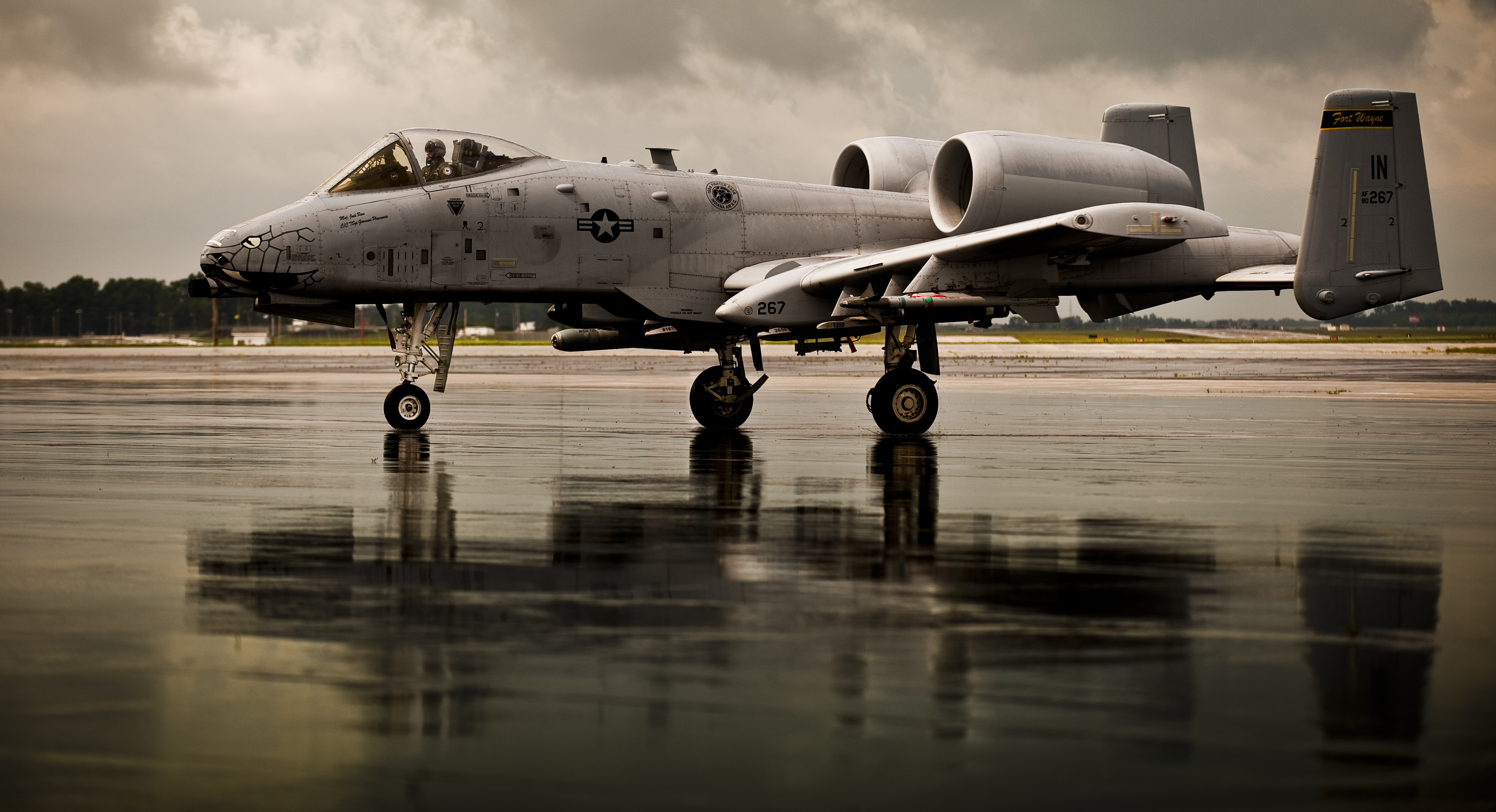 An A-10C Warthog pilot from the 163rd Fighter Squadron at the 122nd Fighter Wing in Fort Wayne, Ind., taxis across the flight line after completing a training mission, July 14, 2015, at the Indiana Air National Guard Base, Fort Wayne, Ind. (Air National Guard photo by Staff Sgt. William Hopper)